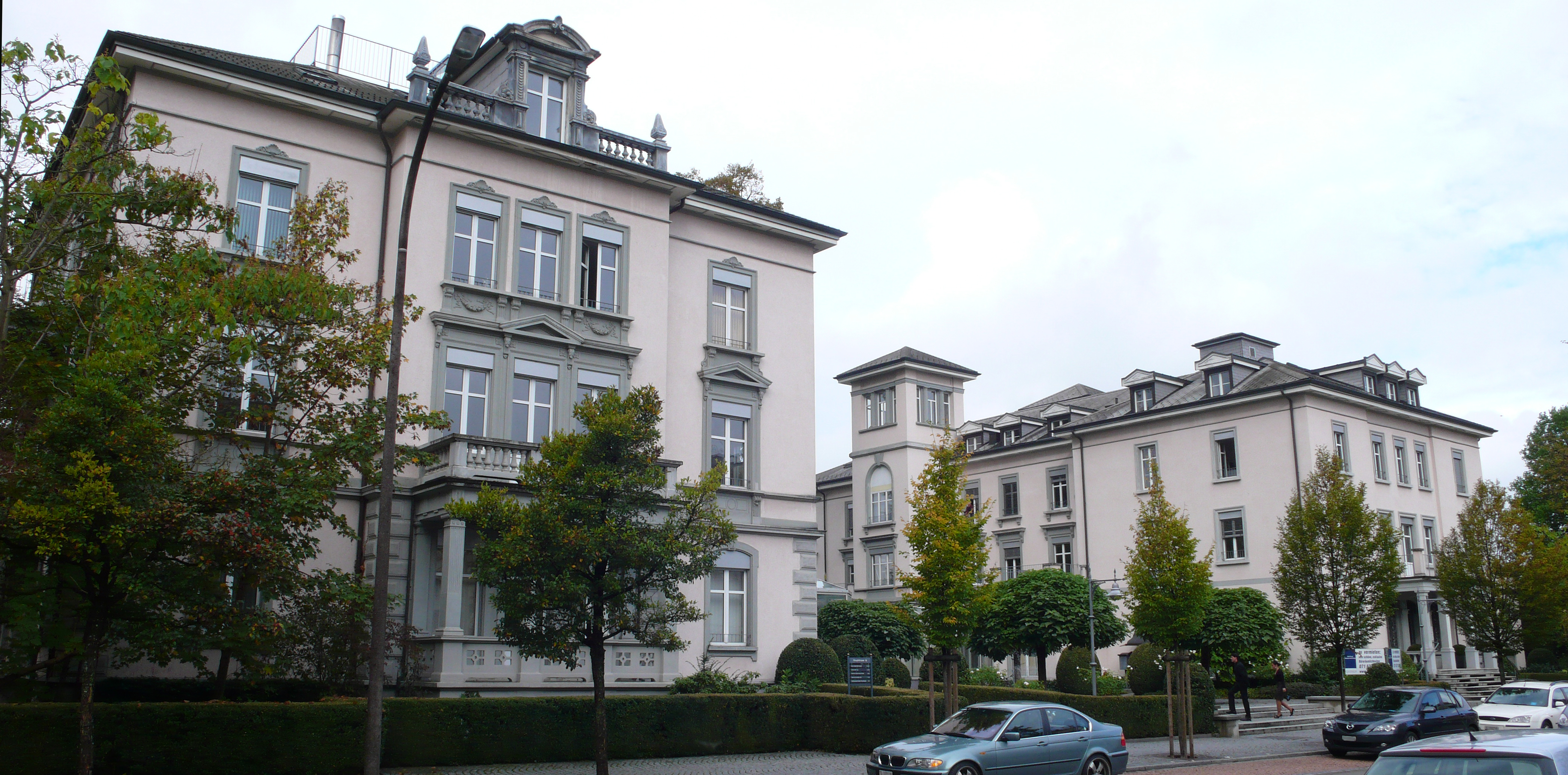 Former Sanatorium "Bellevue" in Kreuzlingen. To the left: Villa "Roberta", built in 1892/3. To the right: Villa "Bellevue", built in 1842/3, modified in 1901.